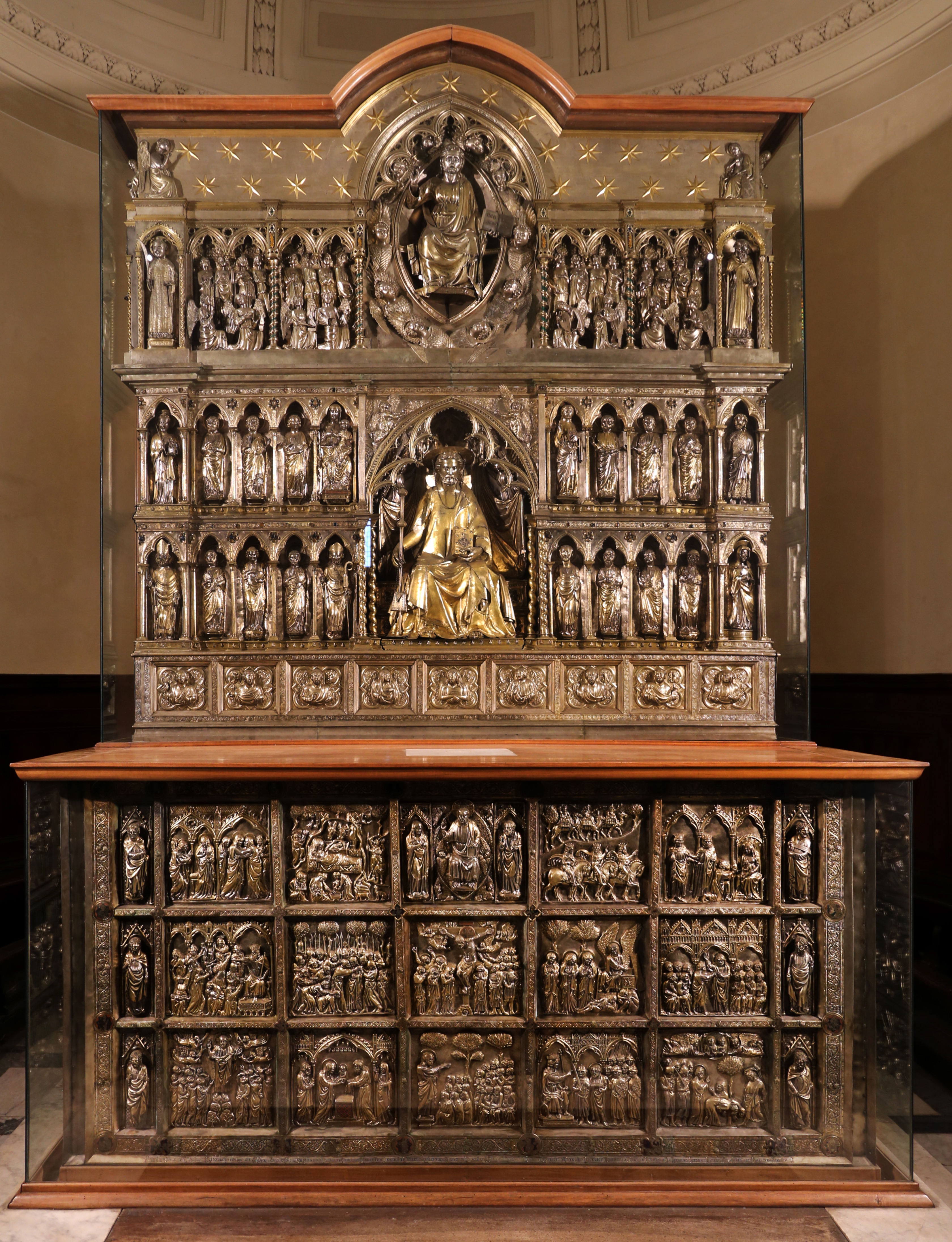 Duomo (Pistoia) - Interior